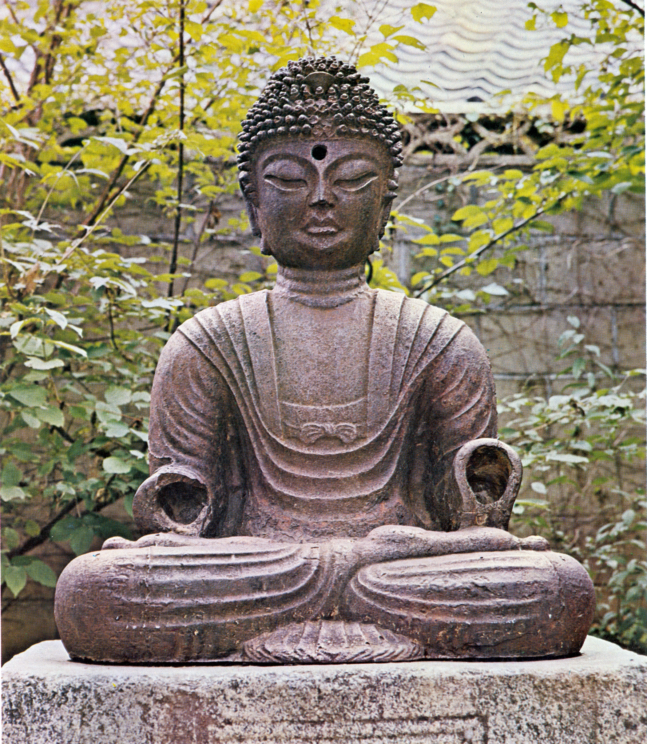 Seated Iron Buddha statue in Chungju, Korea